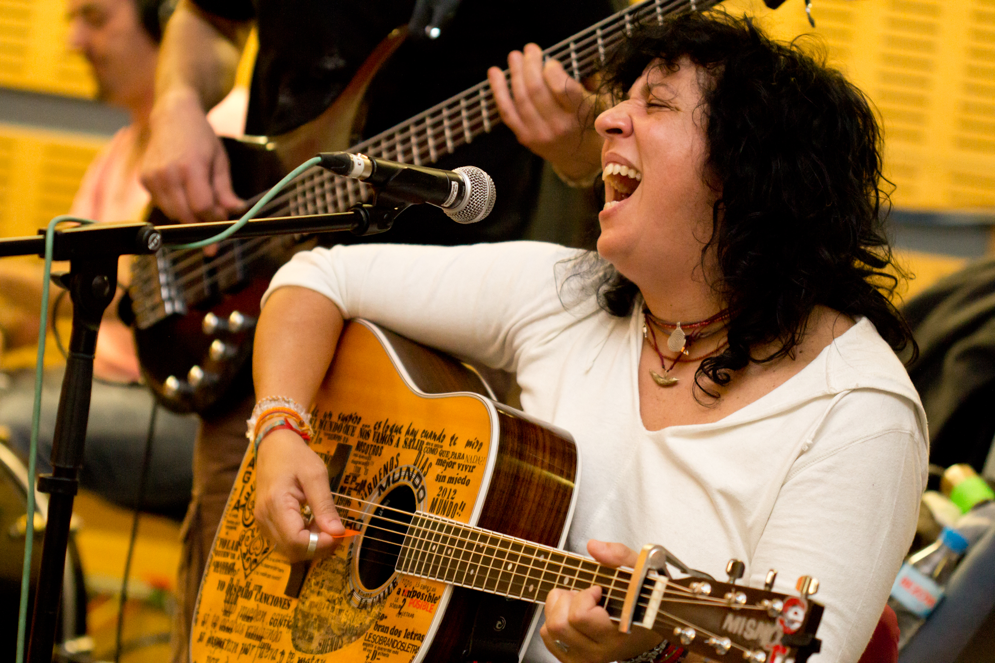 Spanish singer Rosana singing at Radio Nacional de España programme Abierto hasta las 2.